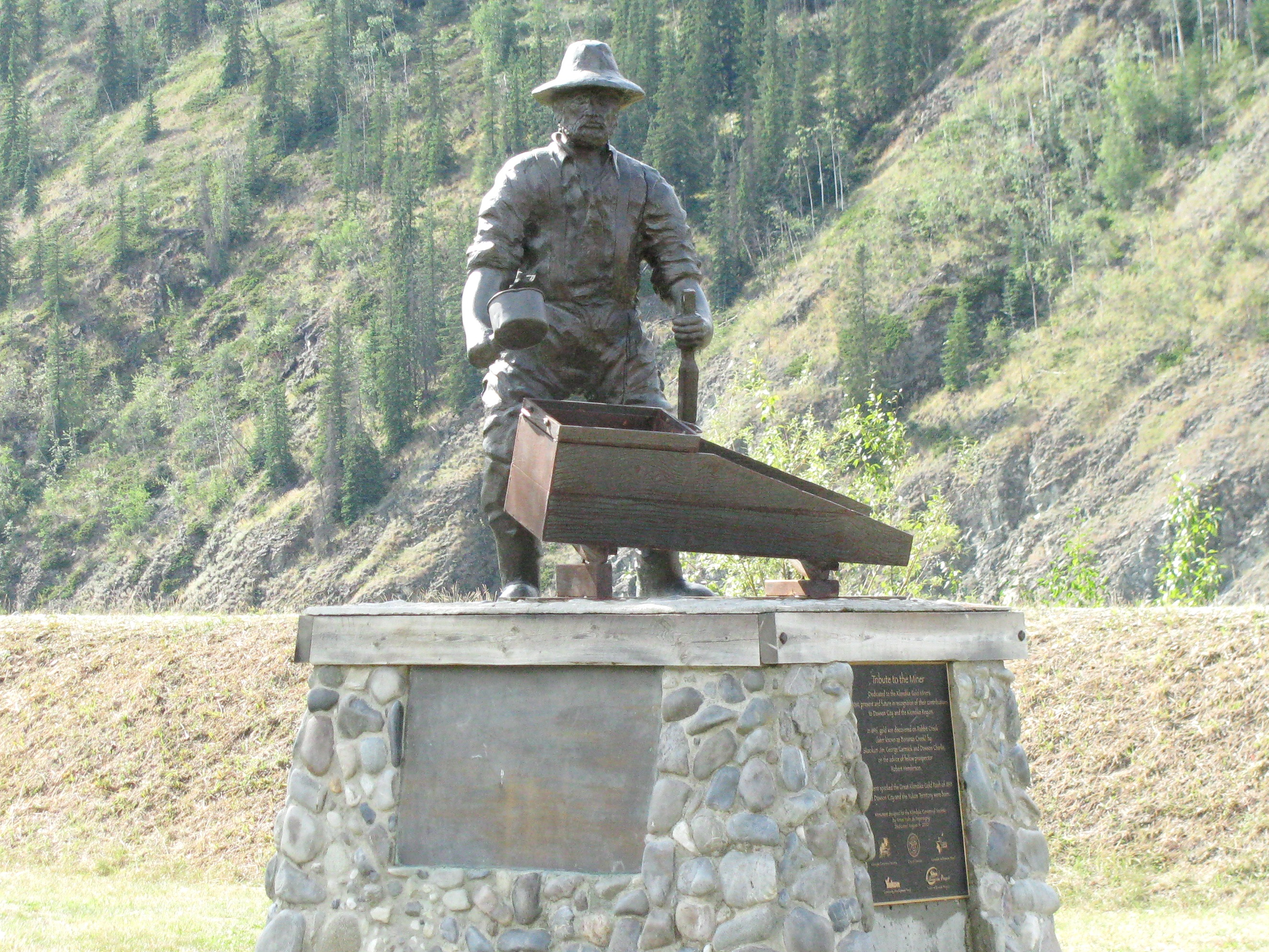 "A Tribute to the Miner", Dawson City, Yukon, Canada. Photographed on 12 August 2009.